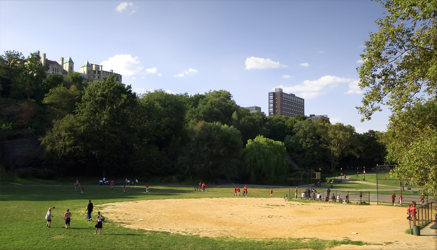 Morningside Park, New York City. GeoTagged